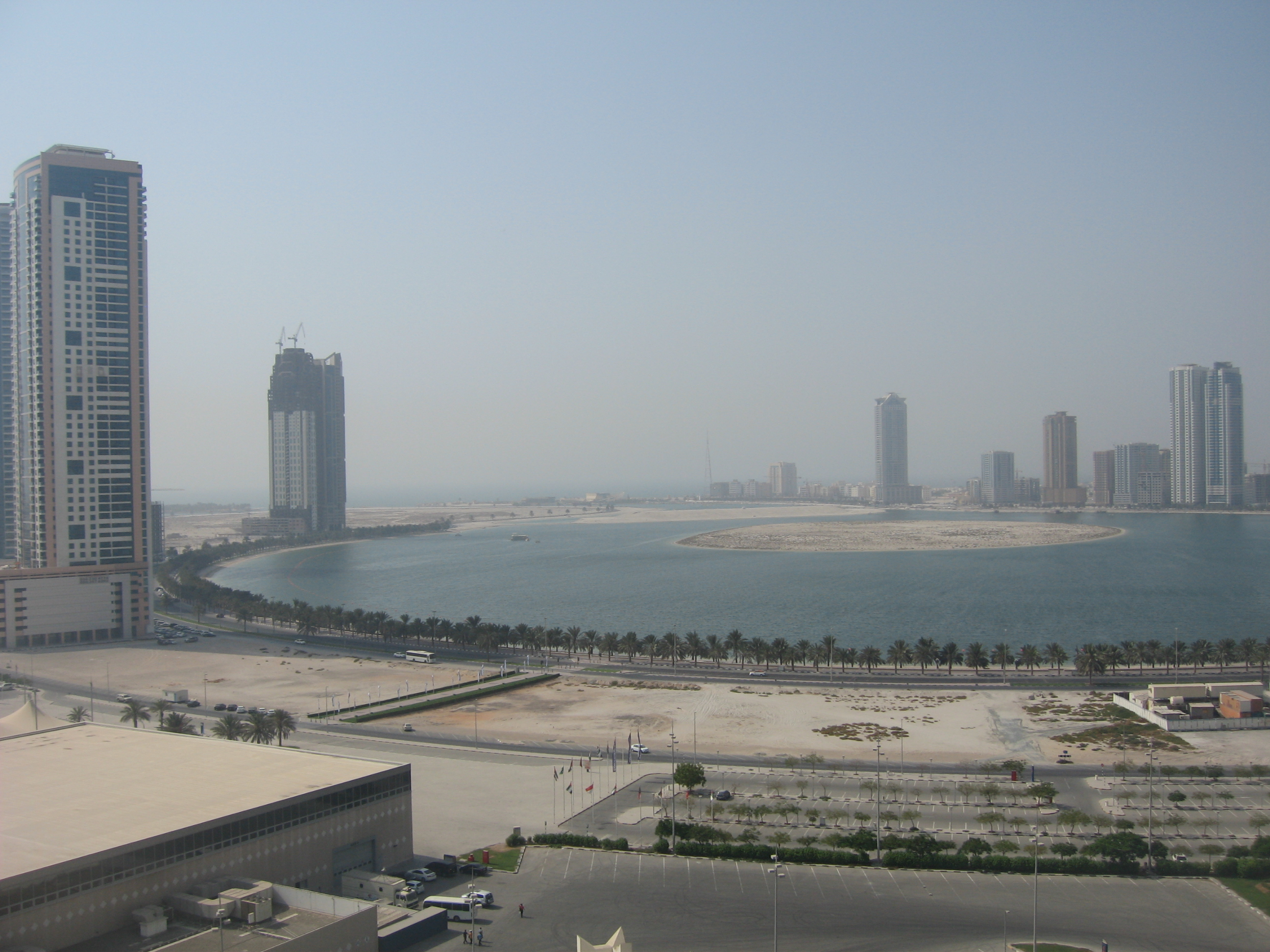 Al Khan Lagoon